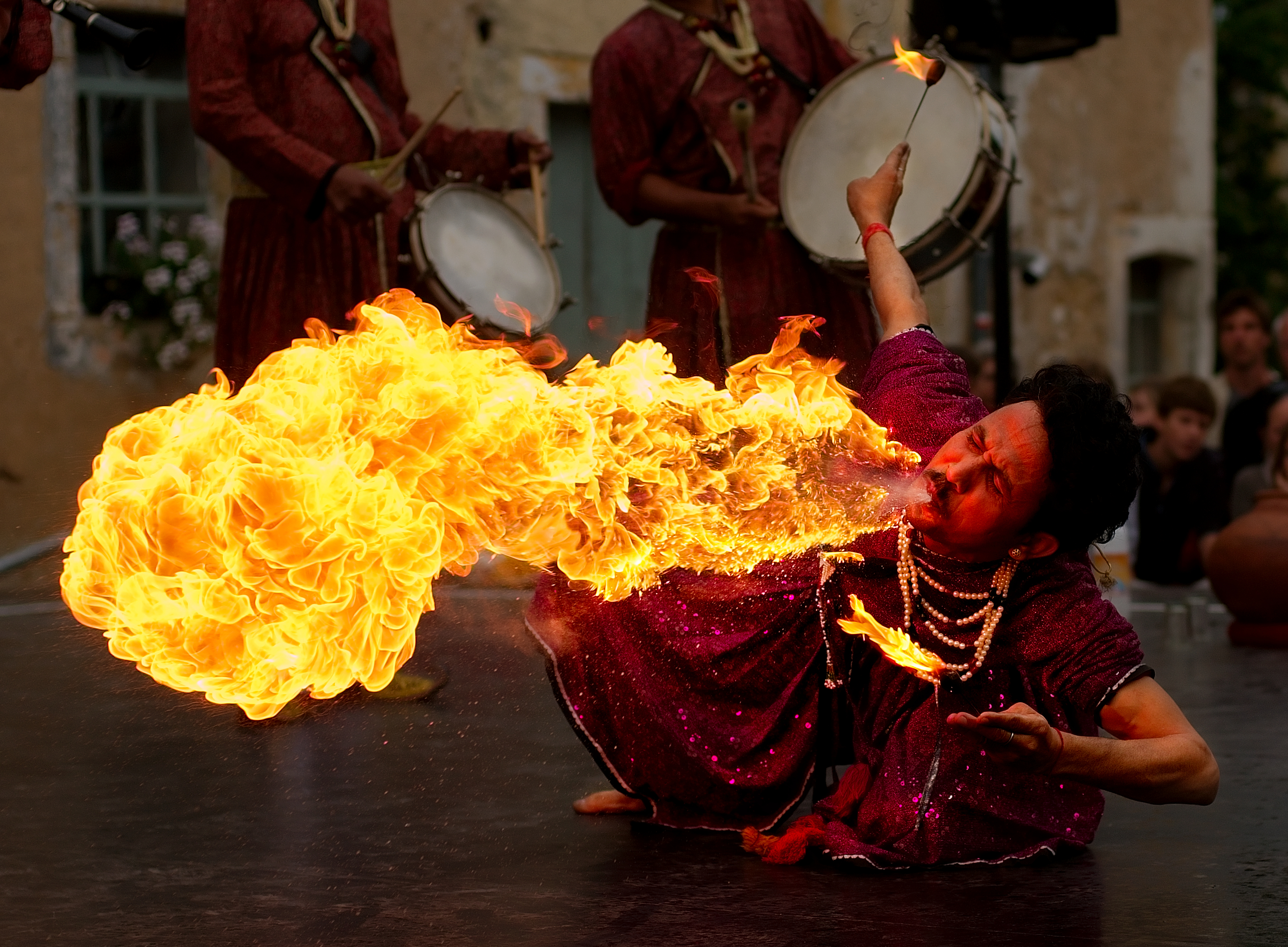 Fire breathing "Jaipur Maharaja Brass Band" Chassepierre Belgium